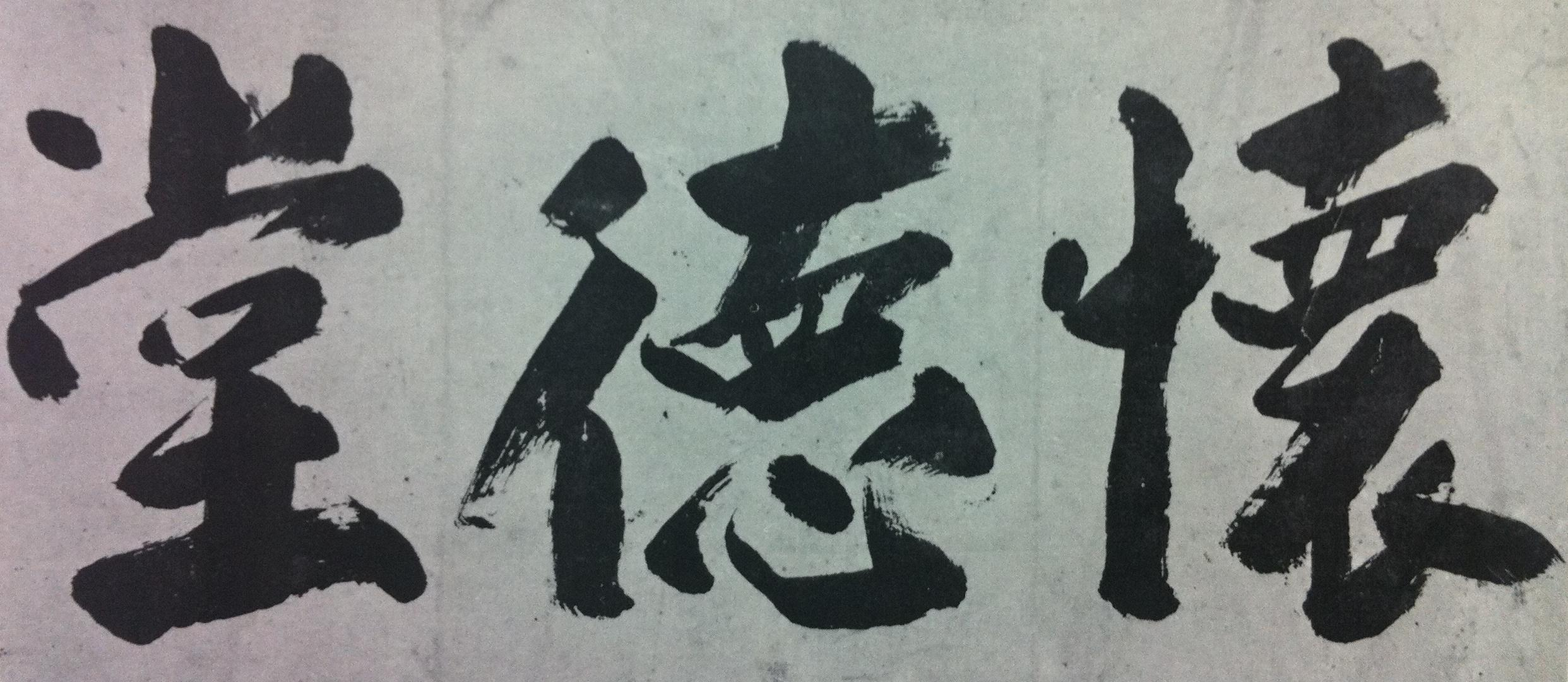 Kaitokudo, Sekian Miyake